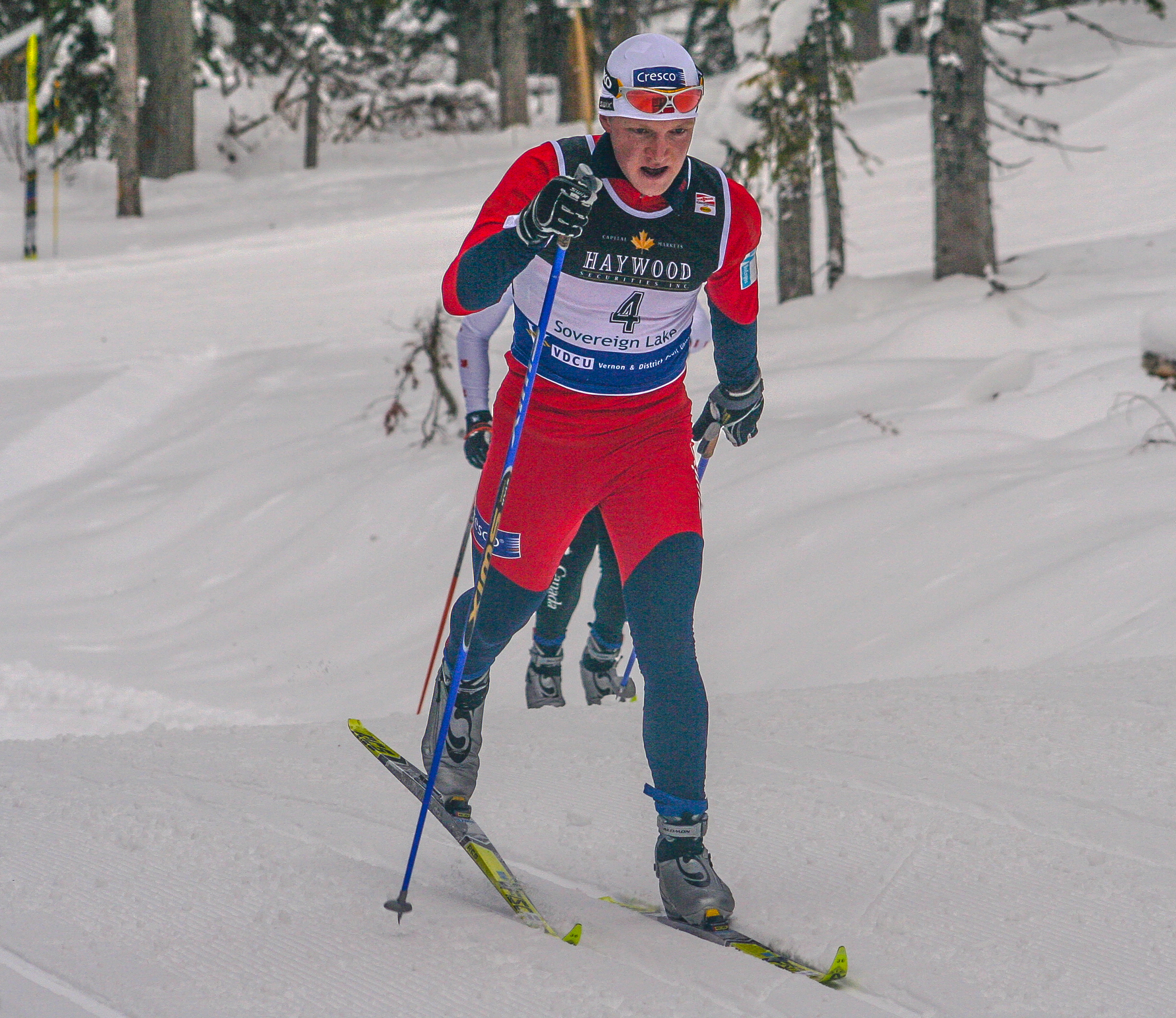 Norwegian cross-country skier Tore Ruud Hofstad at the FIS World Cup Men’s 2x15 km Pursuit in Vernon, British Columbia, Canada.